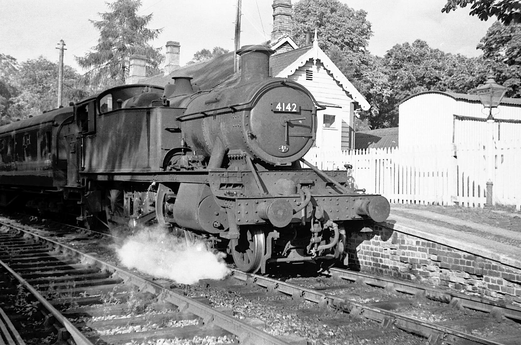 Chipping Norton Station. GWR Class 5101 No. 4142 and passenger train